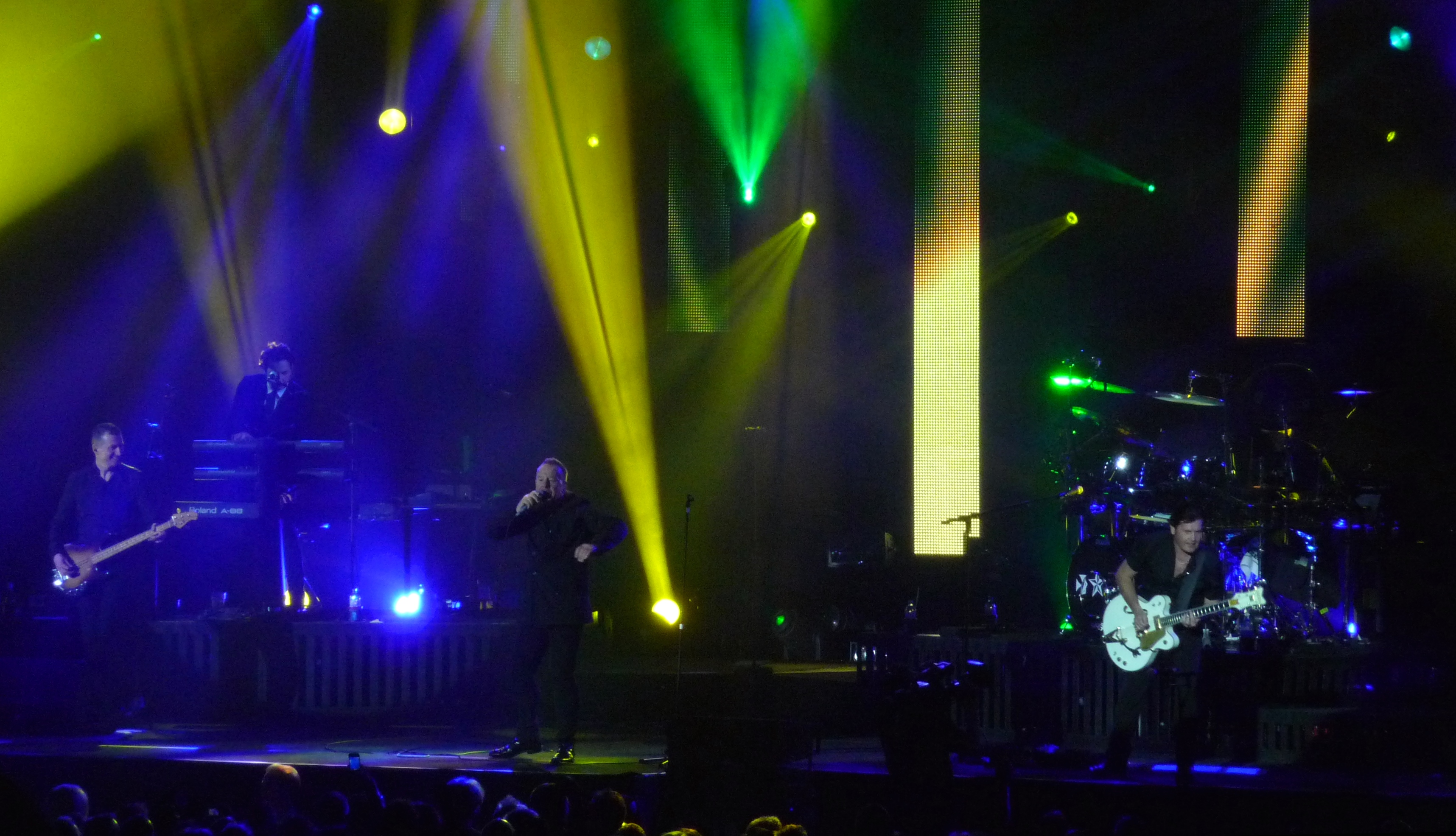 Simple Minds playing "Greatest Hits" tour concert at The O₂, London